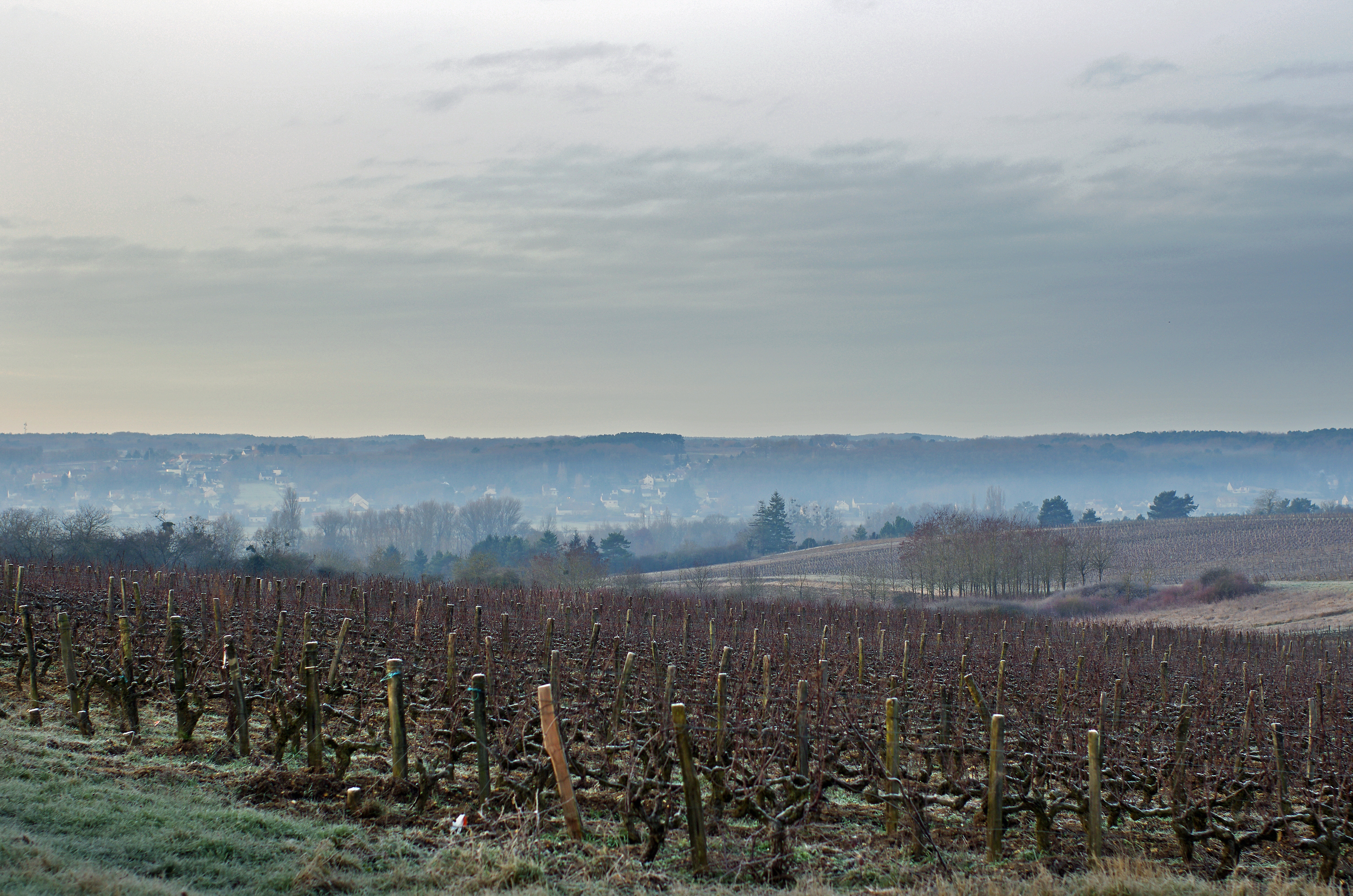 La vallée du Cher.